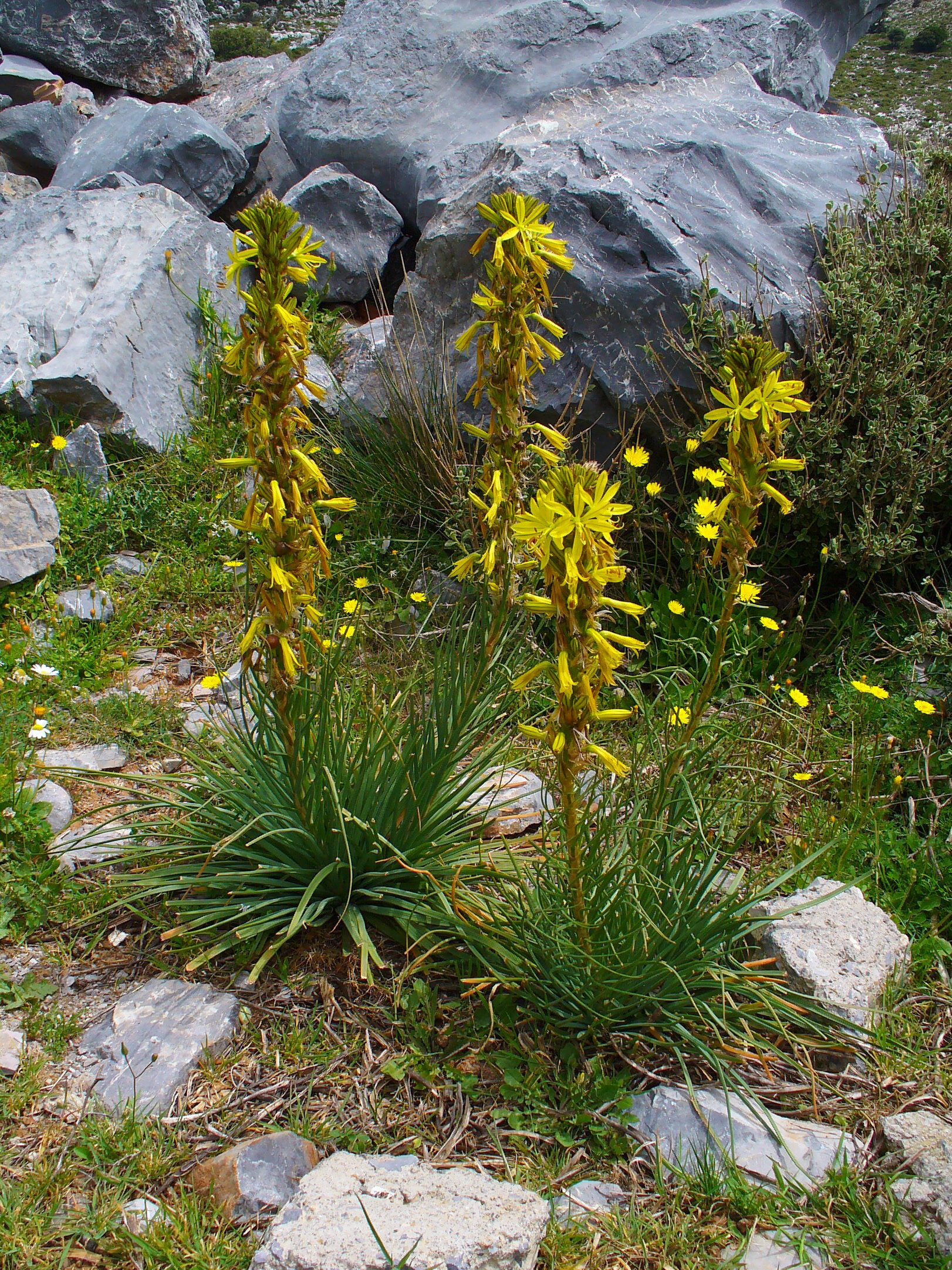 Asphodeline lutea, Yellow Asphodel, habitus; Ambelos Afhin, Crete, Greece.